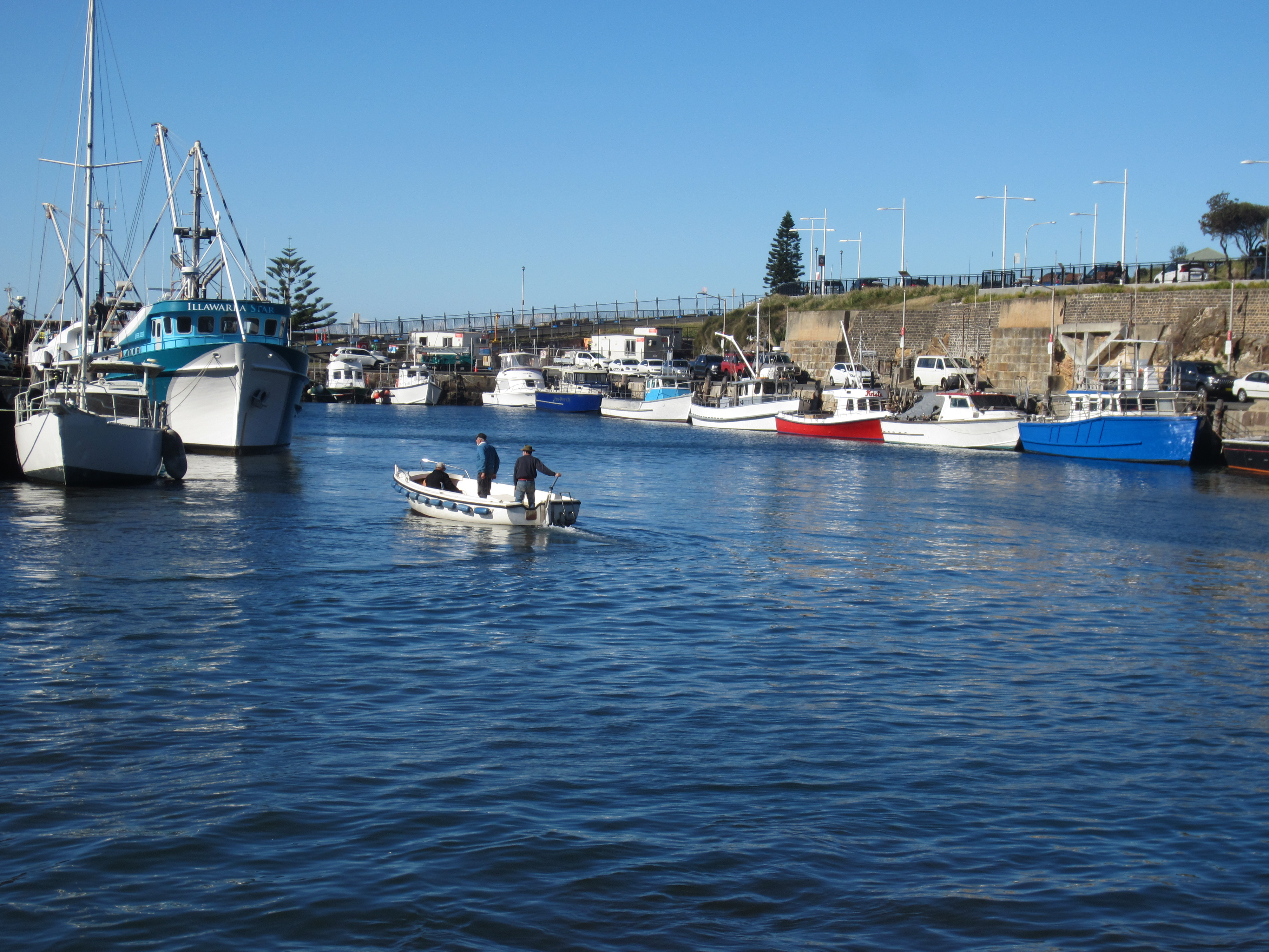 The locations of two of the former coal straiths are marked by the stone and concrete structure in the background.